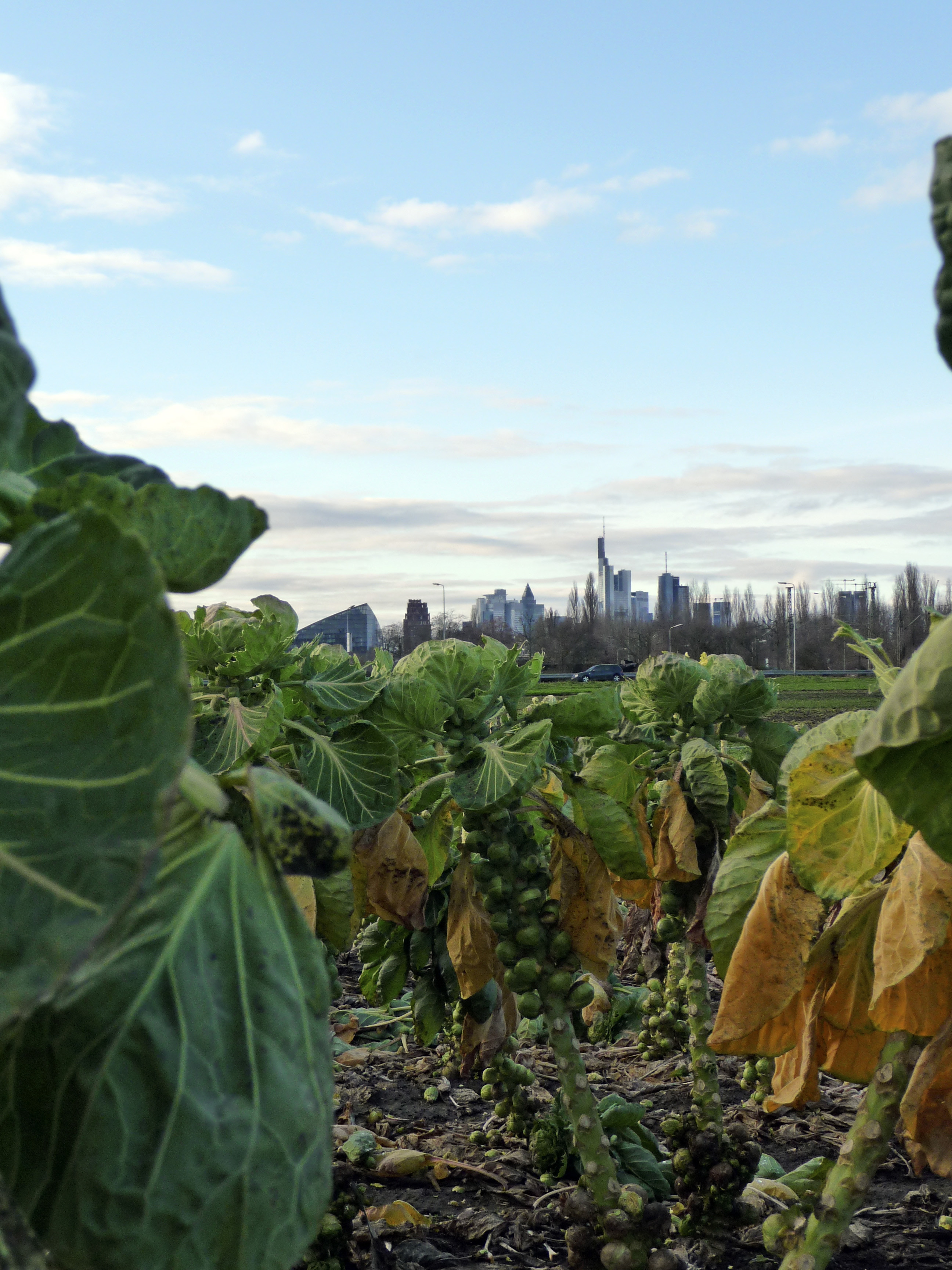 Frankfurt skyline seen from the east, through fields of Brussels sprouts